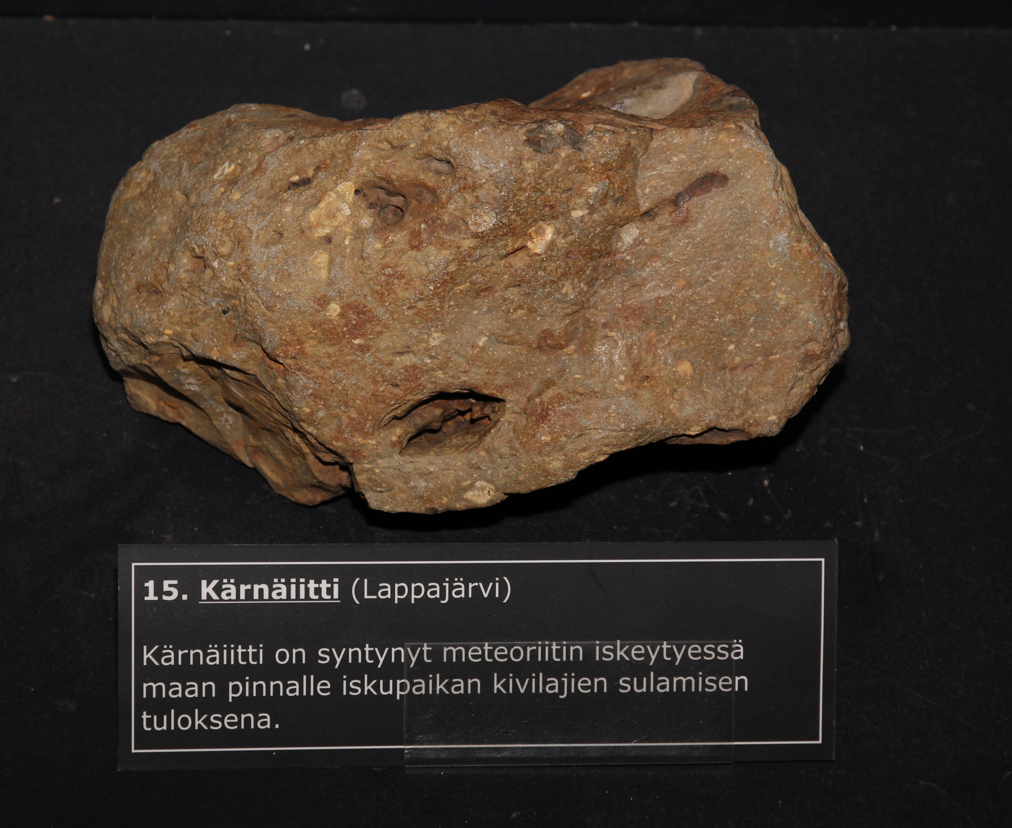 Kärnäiitti impactite rock from Lappajärvi meteorite crater. Photographed in the Central Finland Natural History museum.